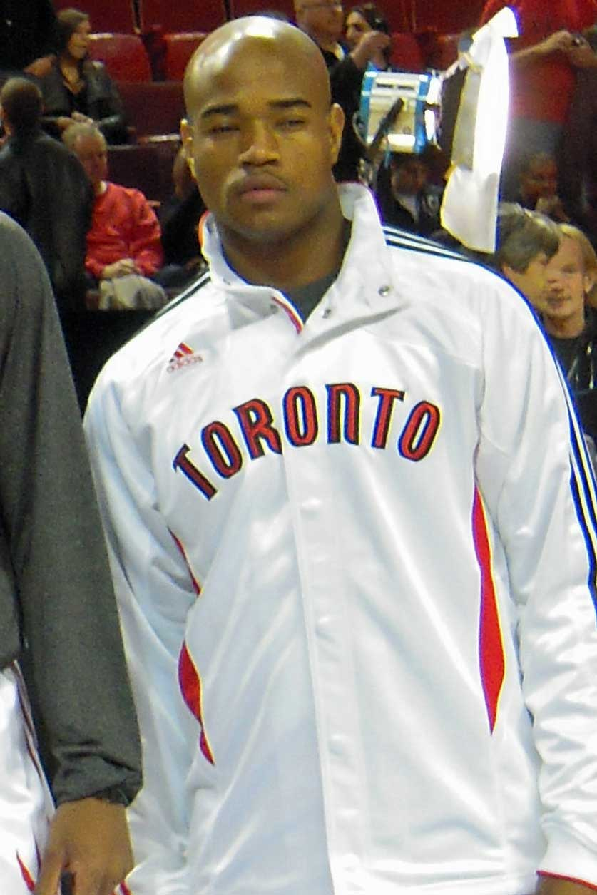 This file has been extracted from another file: Consul General Welcomes NBA Basketball to Montreal.jpg